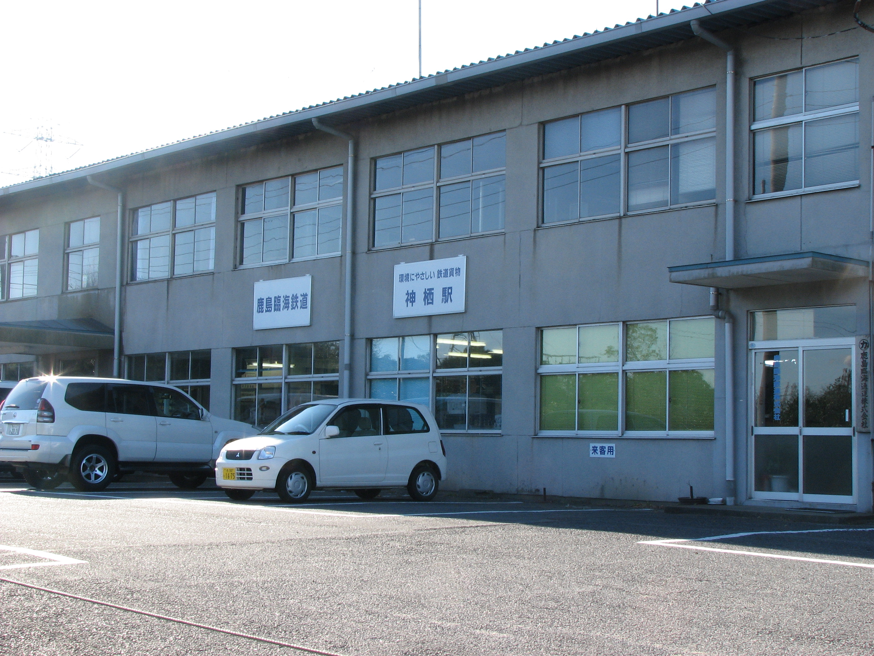 Kashima Seaside Railway Kamisu station